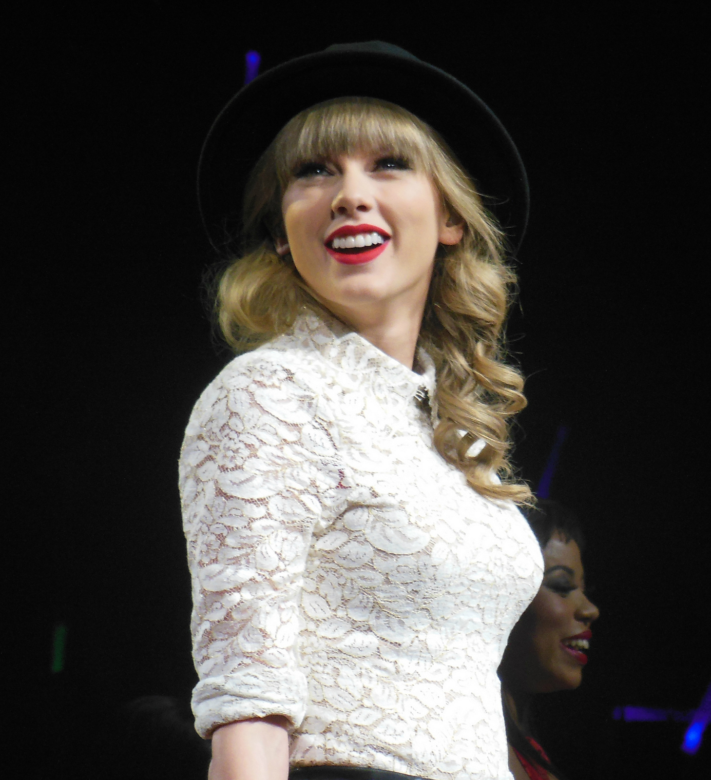 Taylor Swift during the Red Tour, March 2013